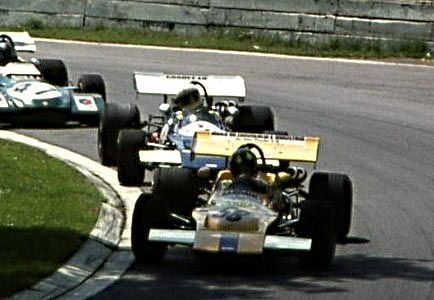 Released under GFDL with the kind permission of the creator of this image, Gerald Swan. The complete set of photos can be seen at the website The image has been cropped to focus on the subject for this article.